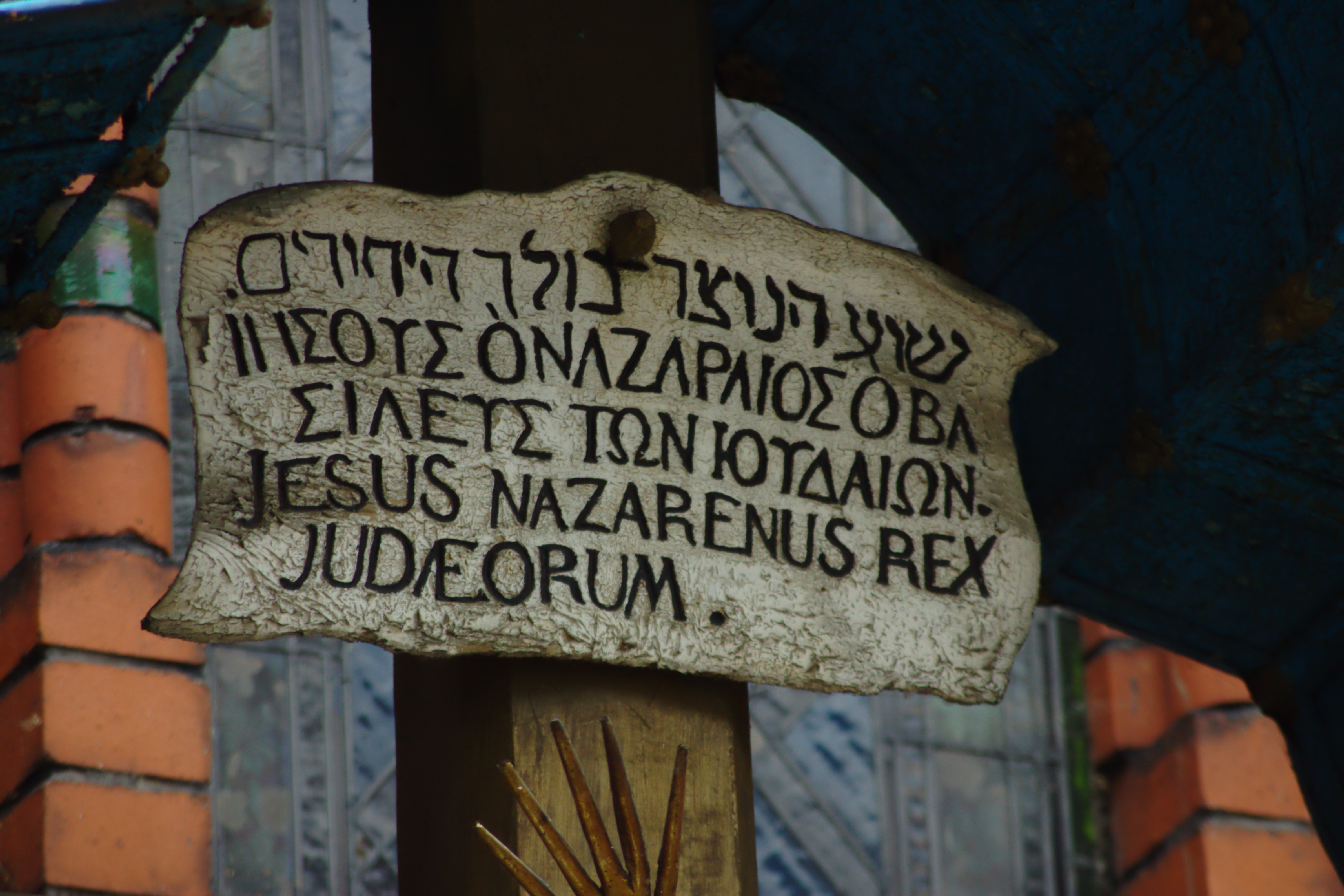 INRI sign at the chapel of Saint Nicholas church in Nowa Ruda, Poland